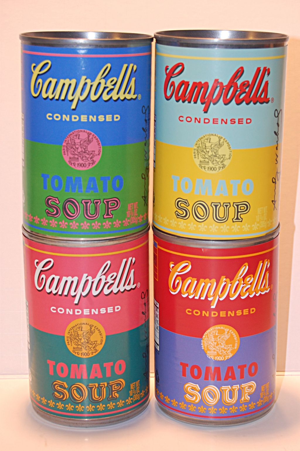 The four 50th Anniversary "Art Of Soup" Campbell's Tomato Soup cans featuring a facsimile autograph by, portrait of, and quote from, Andy Warhol. The commemorative cans were released on 2012-09-02 at Target Stores. They contain actual tomato soup.